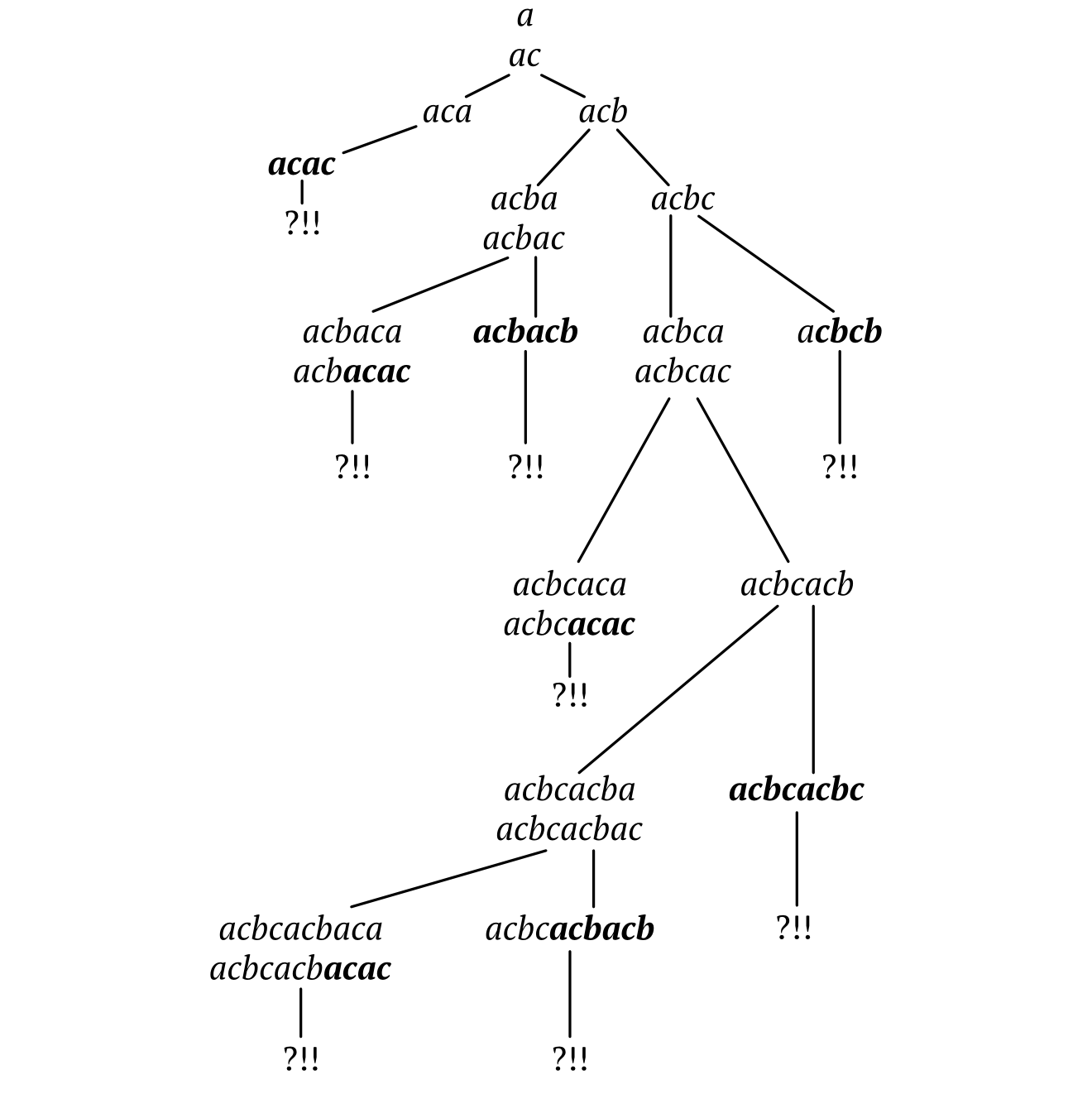 Tree shows the shortest words contains the square-free two-letter subwords.